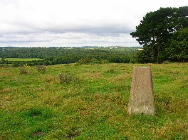 Trig Point. On the hill north of Havenstreet next to 530586. This view looks in a south westerly direction towards Briddlesford Copse.